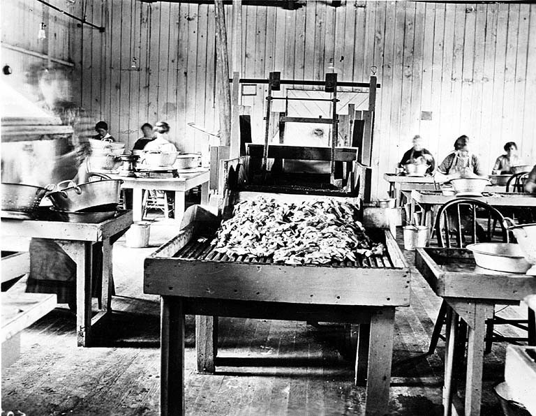 From John Cobb field notebook: Sea Beach Packing Works, Copalis, Wash. 1915. Machine cleaning clam meats. Subjects (LCTGM): Canneries--Washington (State)--Copalis; Clams--Preservation Subjects (LCSH): Pioneer Packing Company (Copalis, Wash.); Women cannery workers--Washington (State)--Copalis